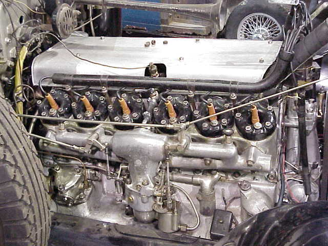 Offside view of very rare Daimler Double-Six Thirty (tax horsepower) 3.7-litre sleeve-valve V12 engine 1926 model "under maintenance" "The engine - a sleeve-valve V-12 - came in boxes and there are no instructions for this sort of thing!"